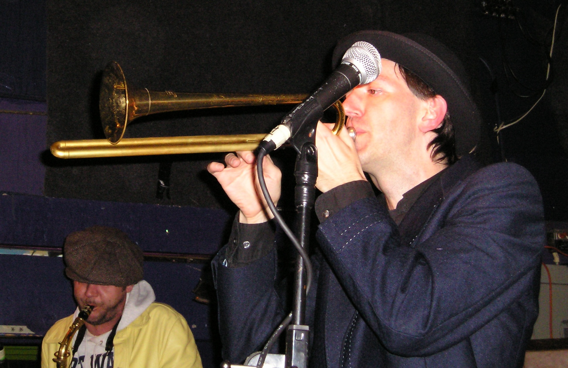 A slide trumpet player